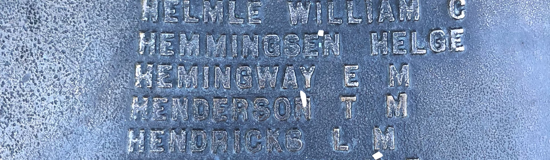 Ernest Hemingway's name on a plaque on the Peace Triumphant statue for World War I veterans in Oak Park's Scoville Park